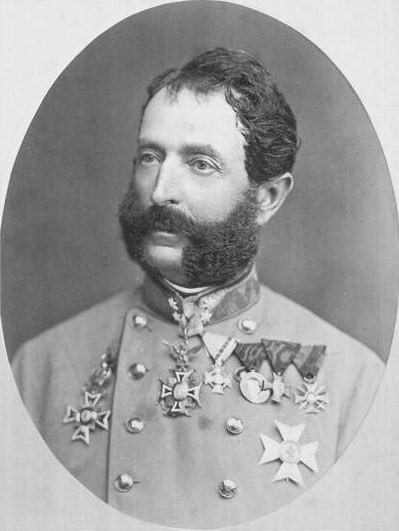 Otto Freiherr von Scholley (1823-1907), austrian Feldmarschall-Leutnant, first son of Gertrude, born Falkenstein, Princess of Hanau, Countess of Schaumburg, morganatic wife of Prince-Elector Frederic William I. of Hesse, and her first husband Carl Michael Lehmann, a prussian lieutenant